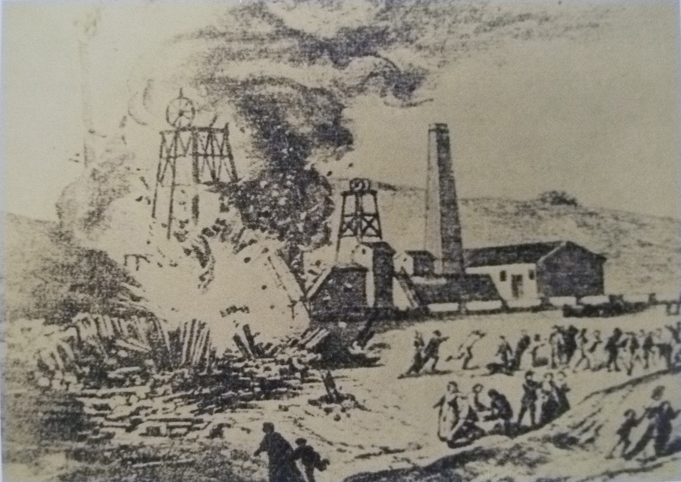 Disaster in the Agrappe Coal Mine on 17 April 1879; by anonymous